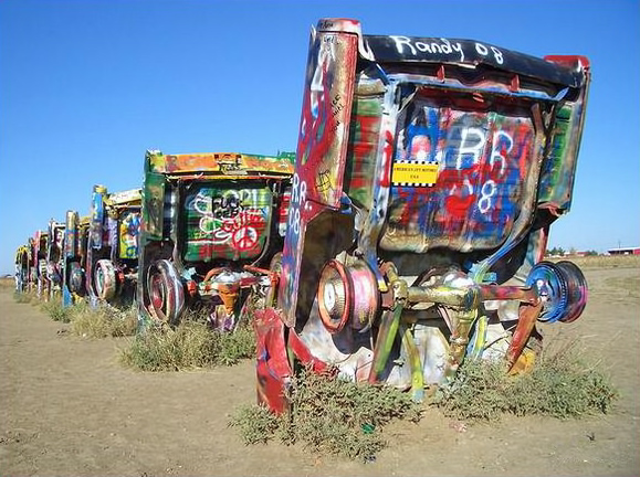 Cadillac Ranch Taxas USA 2008 American-Int-Motors USA